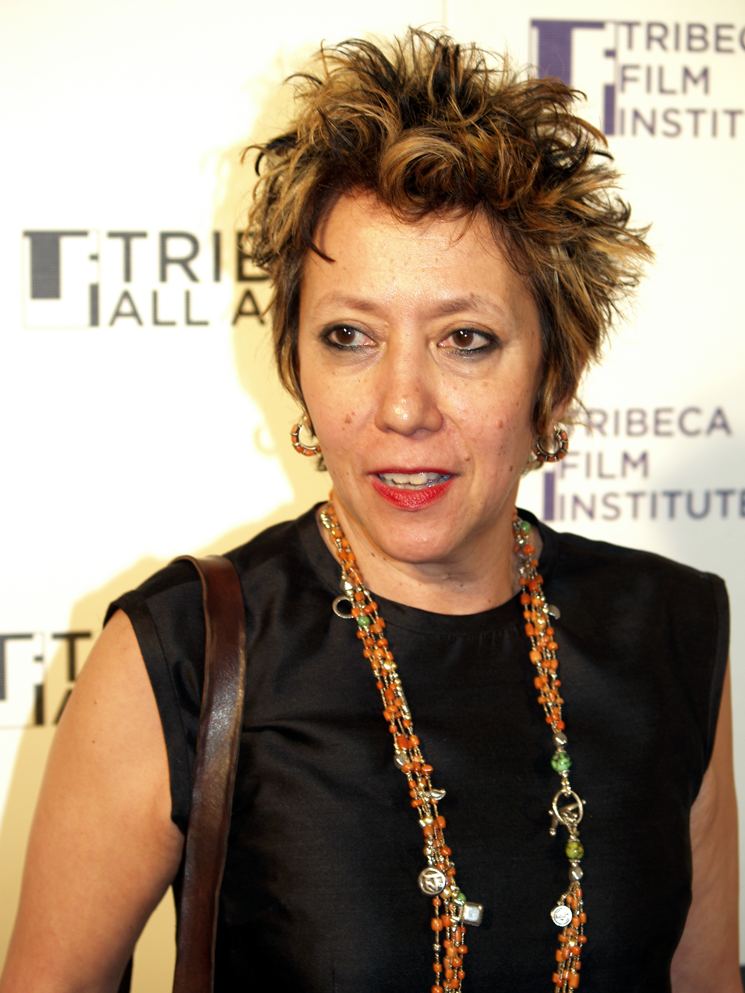 Jessica Hagedorn at the 2008 Tribeca All Access awards.